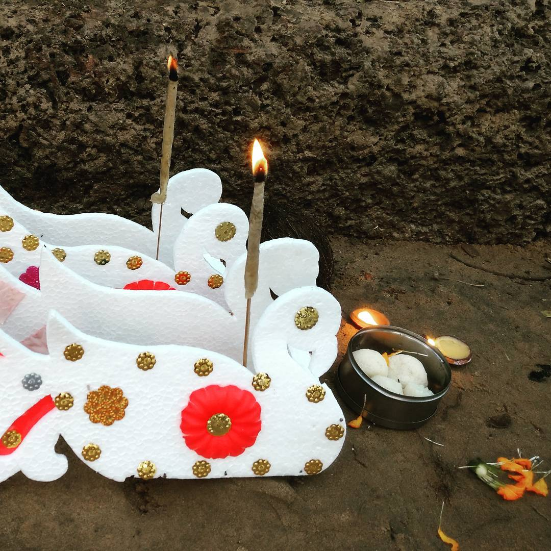 Traditional small boat used during the auspicious occasion of Kartik Purnima ଓଡ଼ିଆ: କାର୍ତିକ ପୂର୍ଣ୍ଣିମା ଅବସରରେ ଡଙ୍ଗା ଭସାଇବାର ବିଧି